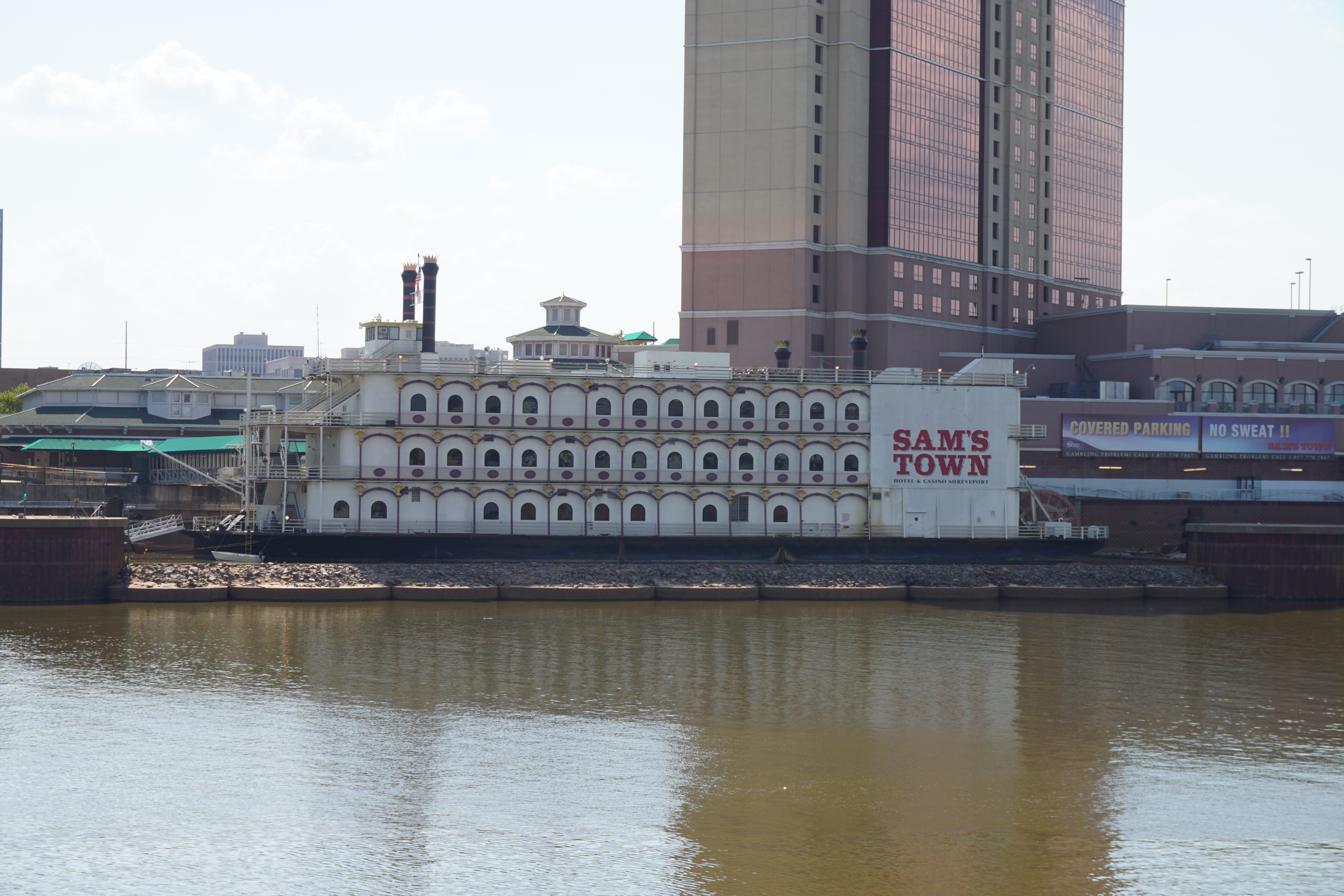 A view of the Sam's Town riverboat casino from Bossier City, Louisiana (United States).